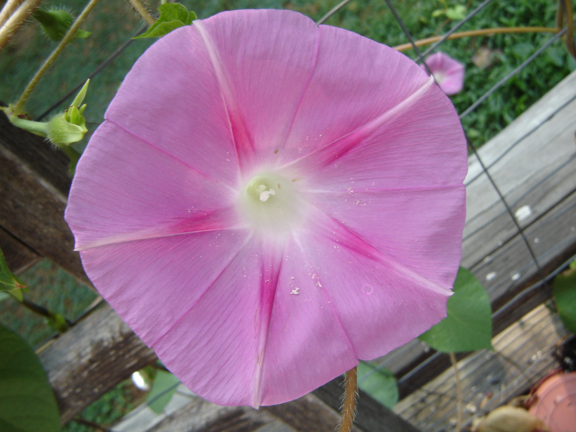 A morning glory blossom.